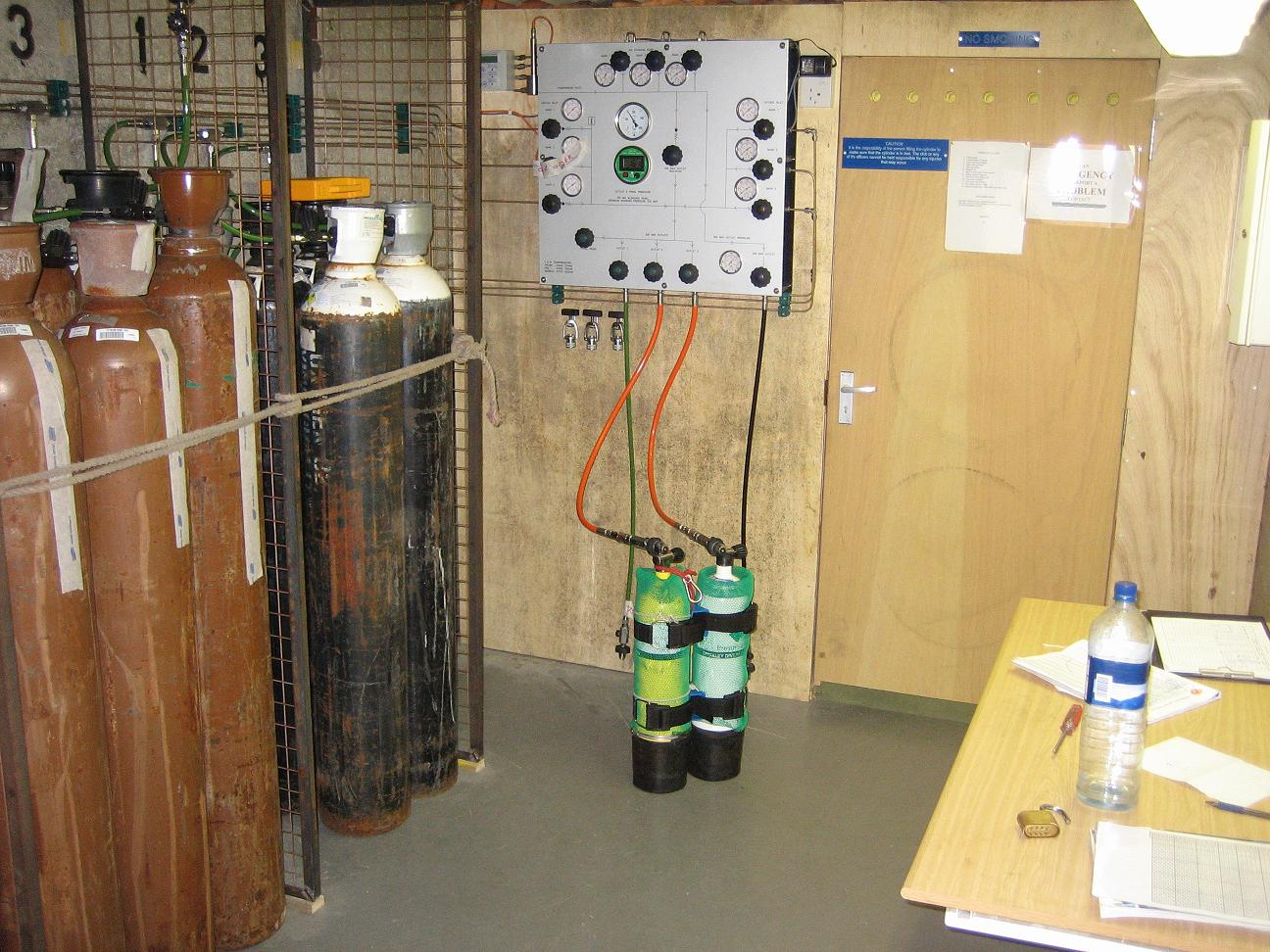 A gas blending system consisting of a blending panel with air inputs from 3 bank cylinders, located and blown by an electric powered compressor in the room behind, 3 inputs, for cascading, of oxygen J cylinders and 3 inputs of helium J cylinders.